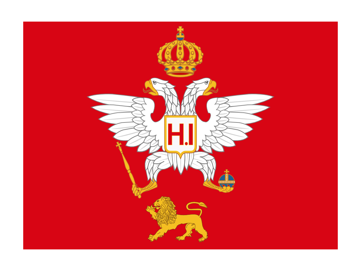 military flag kingdom of Montenegro